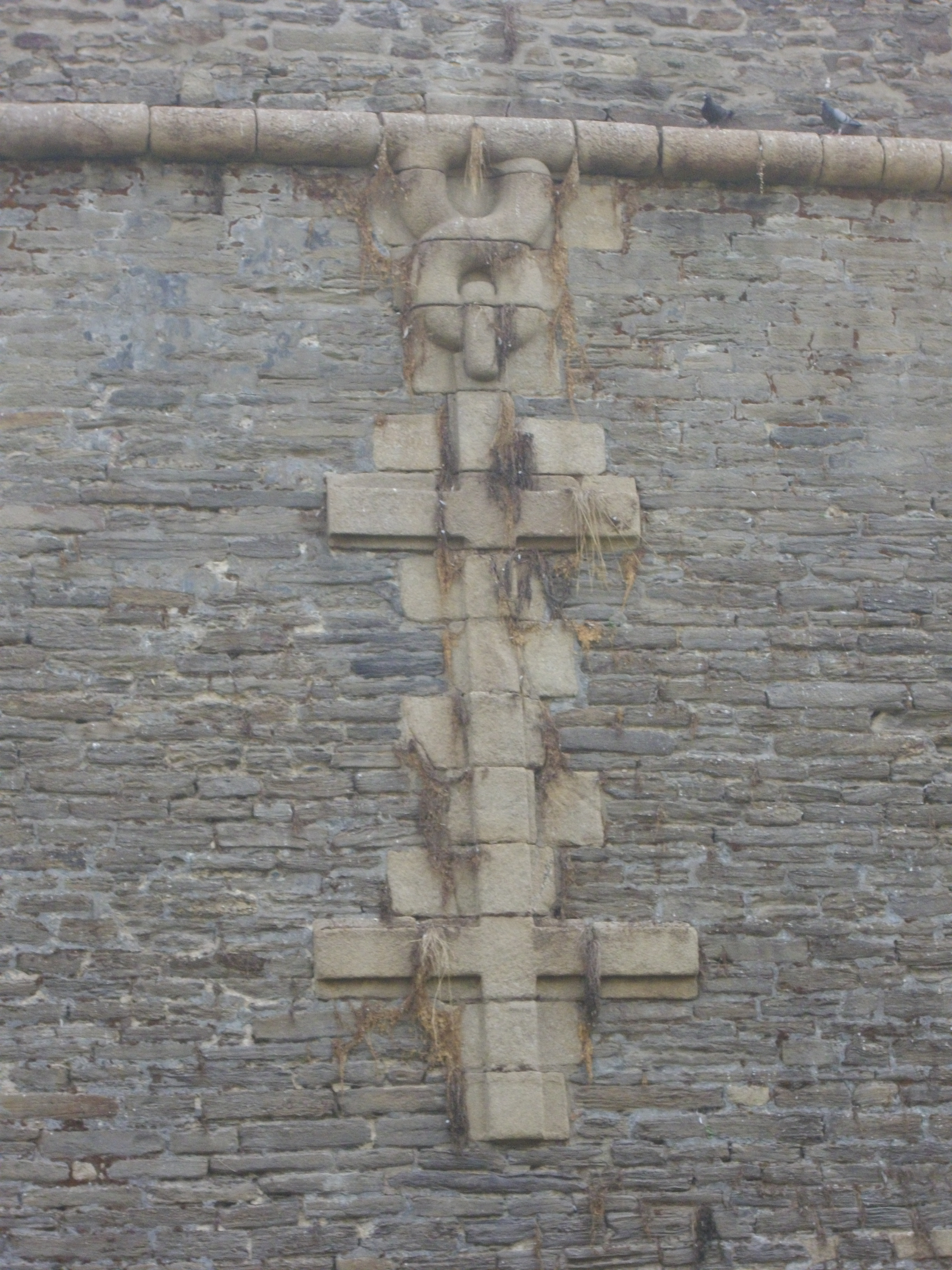 Castle of the dukes of Brittany in Nantes (Loire-Atlantique, France), symbol of Mercœur duke .